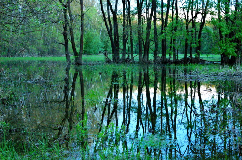 Flooded forests alongside the Morava river in spring.